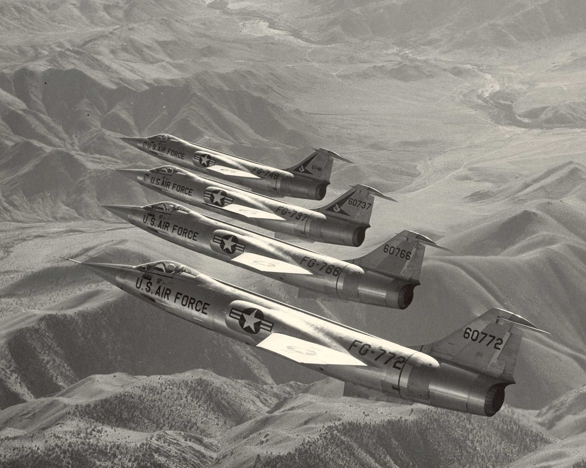 Early F-104A's in flight (Block 15 or F-104-LO-15, the last F-104As produced)